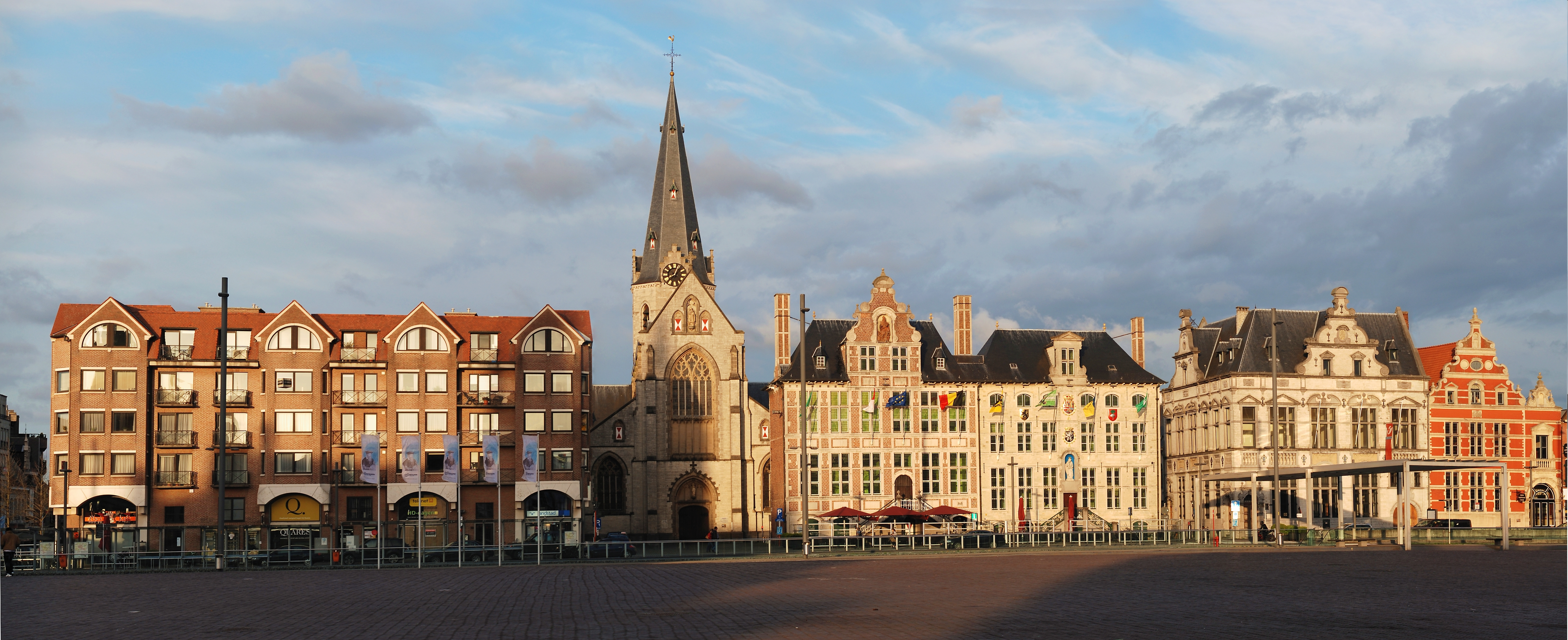 View of the Great Market (Grote Markt), Sint-Niklaas, Belgium